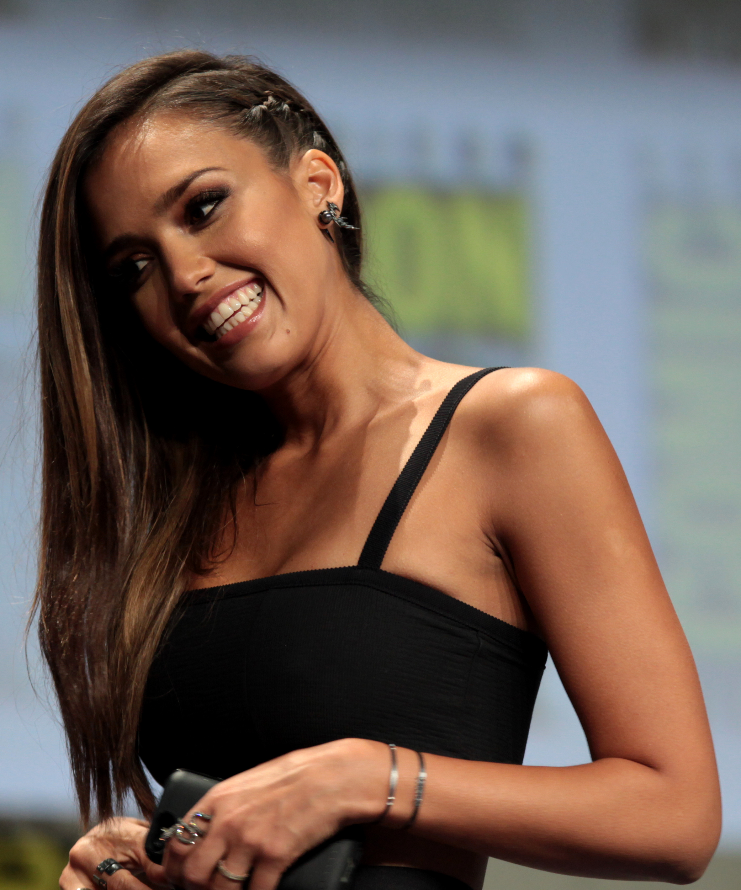 Jessica Alba speaking at the 2014 San Diego Comic Con International, for "Frank Miller's Sin City: A Dame to Kill For", at the San Diego Convention Center in San Diego, California.